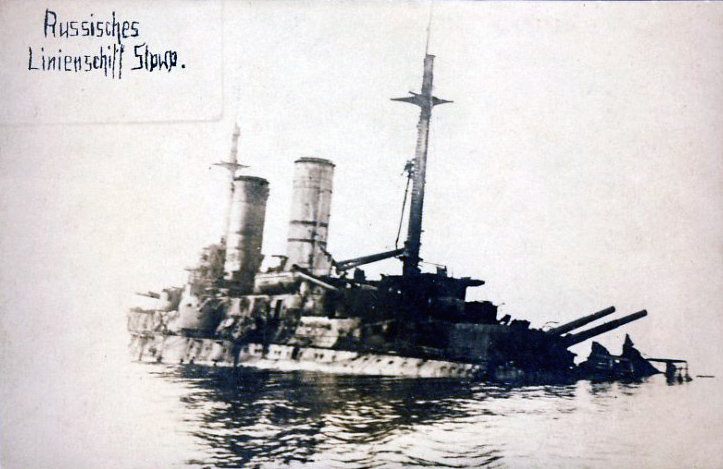 Imperial Russian battleship Slava